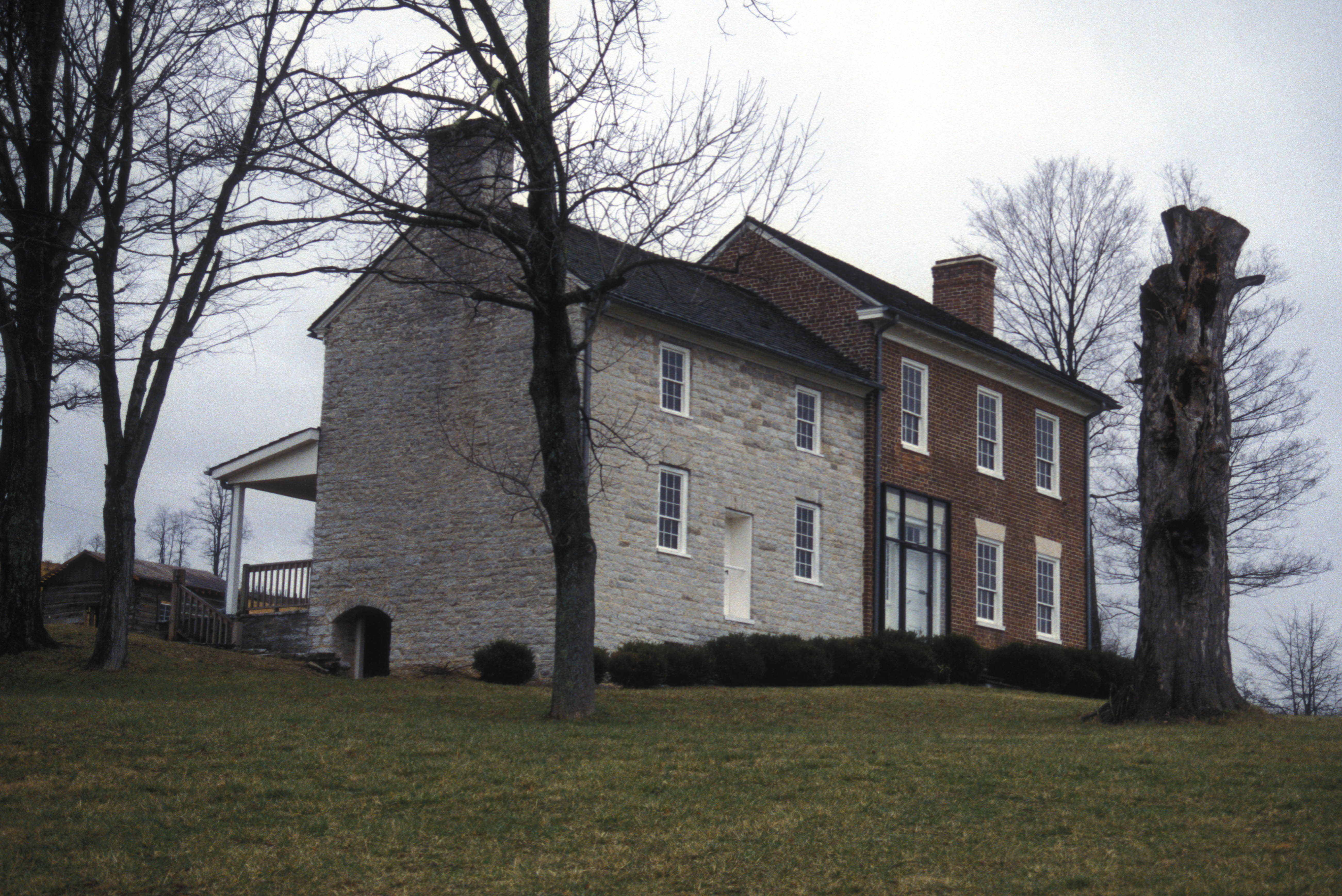 ERECTED 1799 AND ONE OF THE OLDEST STILL-STANDING BUILDINGS IN SOUTHWEST VIRGINIA